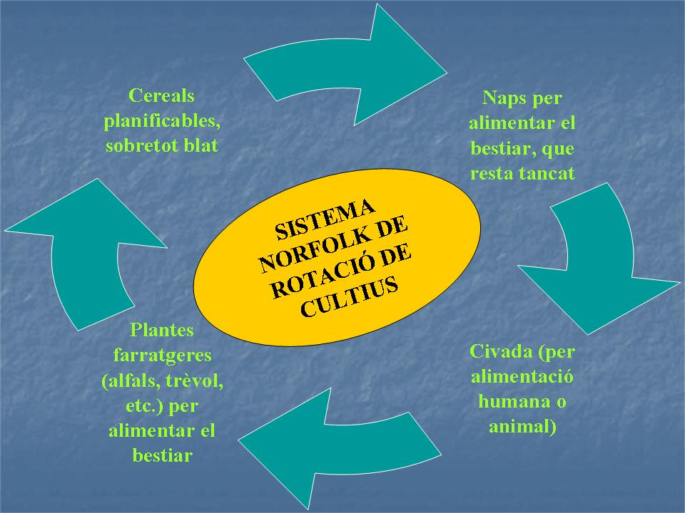 Norfolk System diagram